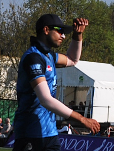 Kent cricketer Imran Qayyum fielding at Beckenham in April 2019 in a One Day Cup match against Sussex.